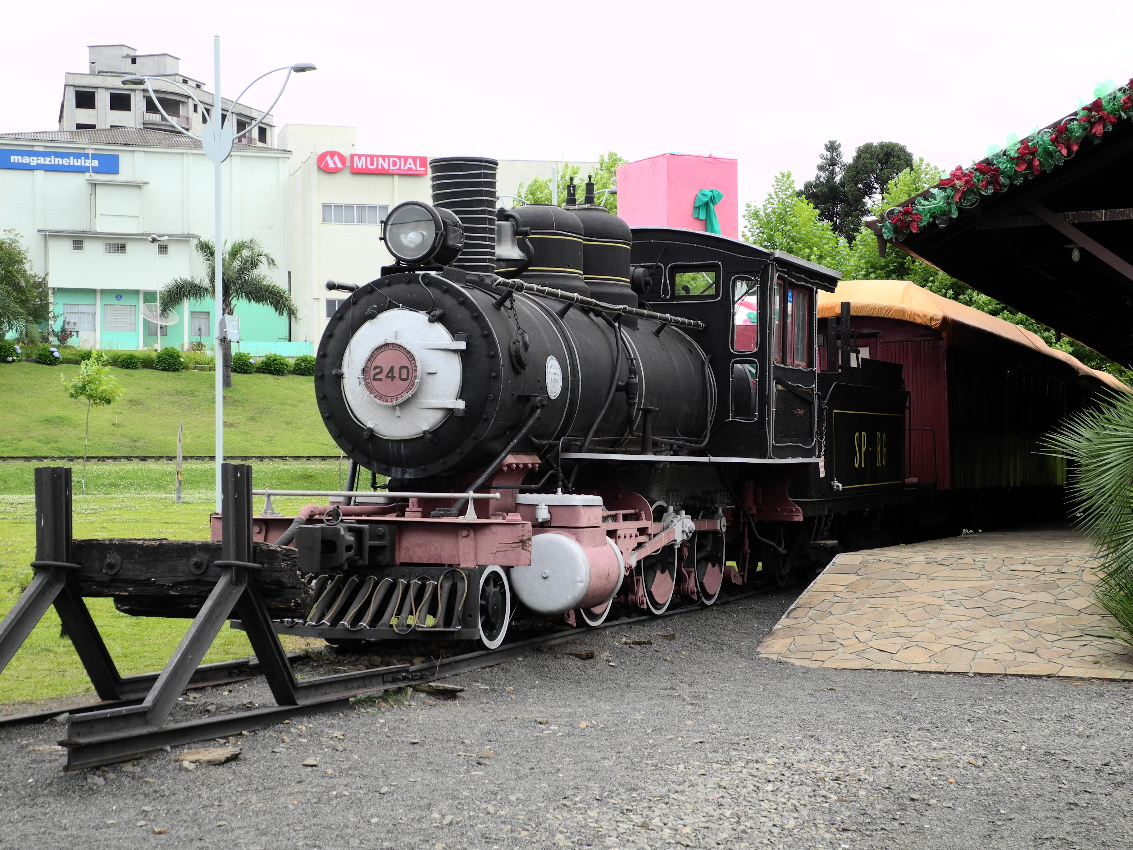 Cacador-SC-Brazil-Contestado Museum and Baldwin Locomotive